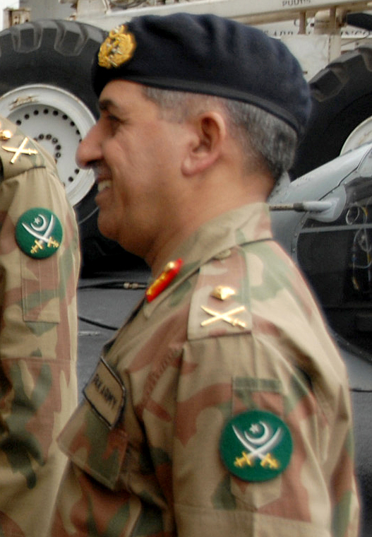 Taken from U.S. Department of Defense[1]: "From Left: U.S. Navy Adm. Mike Mullen, chairman of the Joint Chiefs of Staff, and U.S. Navy Rear Adm. Scott Van Buskirk, commander of Carrier Strike Group 9, talk with Pakistani Army Gen. Ashfaq Kayani, chief of army staff, and Pakistani Army Major Gen. Ahmad Shuja Pasha, director general of military operations, on the flight deck aboard USS Abraham Lincoln in the North Arabian Sea. U.S. Navy photo by Petty Officer 1st Class William John Kipp Jr"